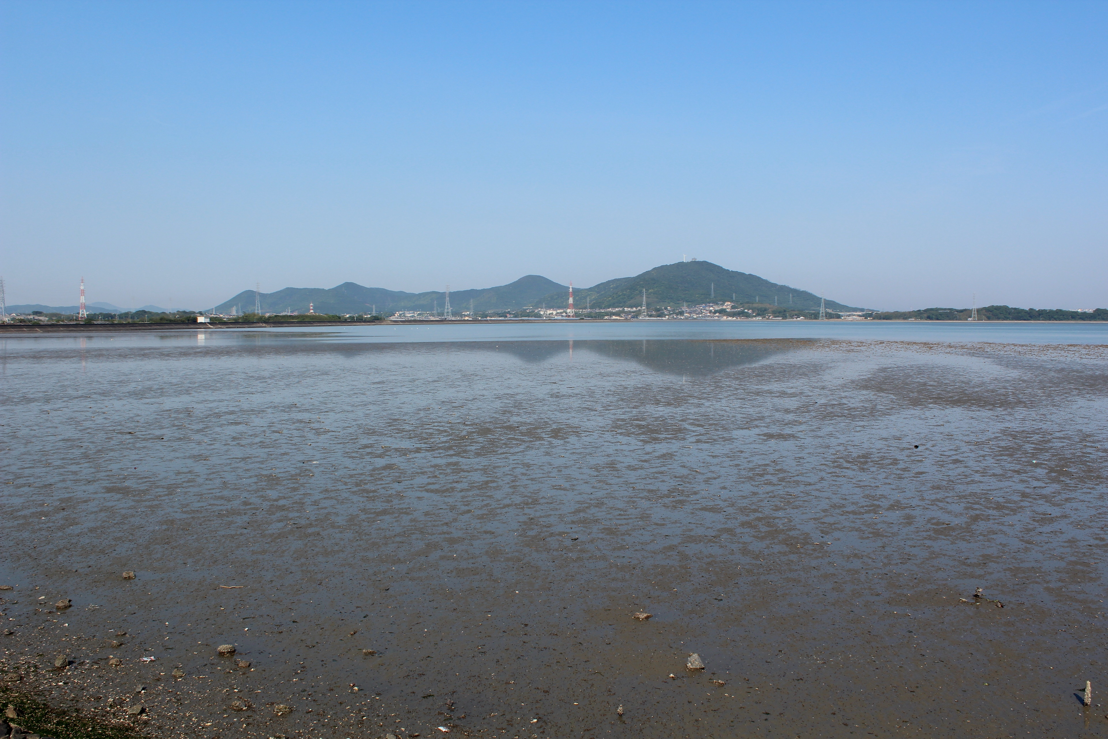 Shiokawa Higata and Mount Zao